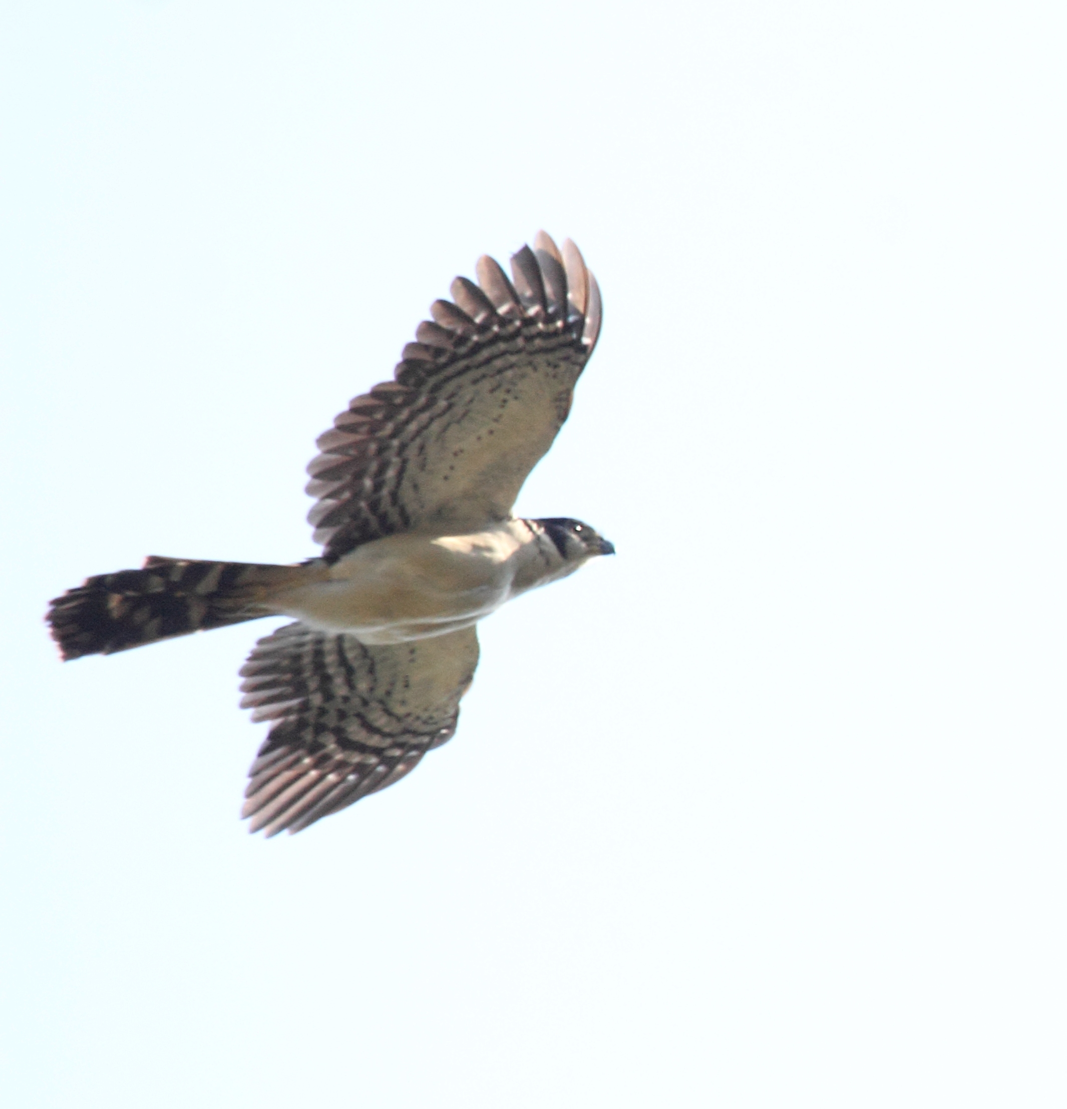 Collared Forest-Falcon (Micrastur semitorquatus)